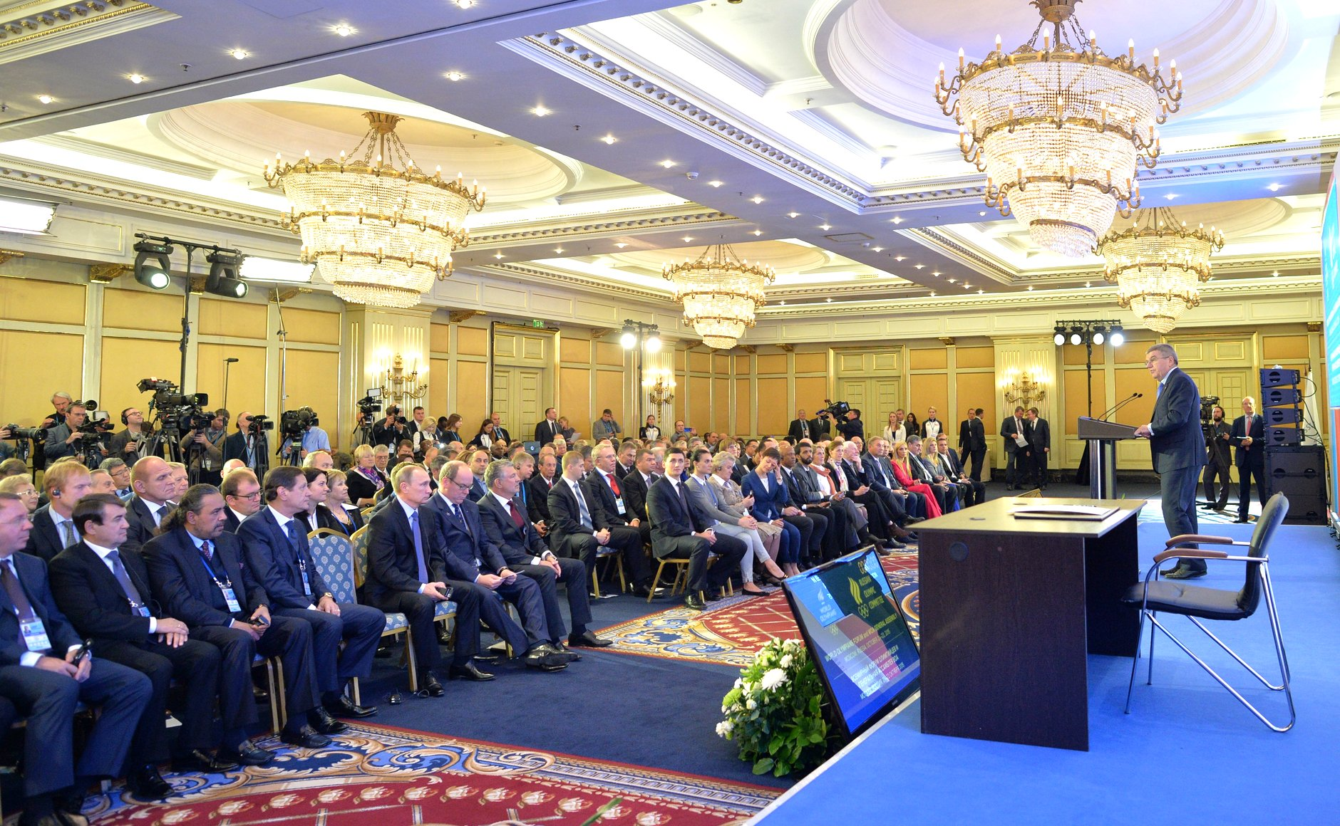 First World Olympians Forum held in Moscow in 2015